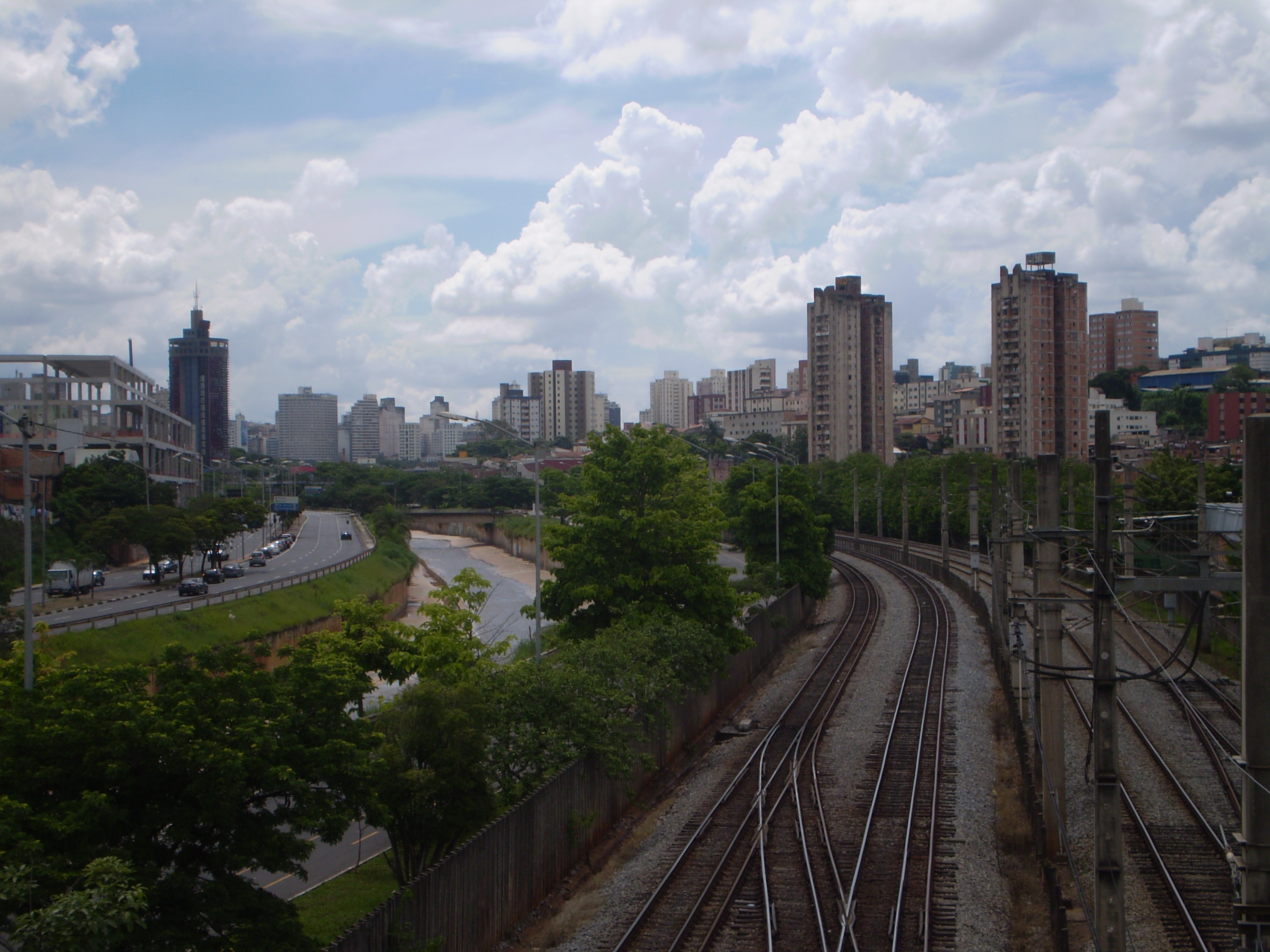 Andradas Avenue near Santa Efigênia, Belo Horizonte, Minas Gerais, Brazil